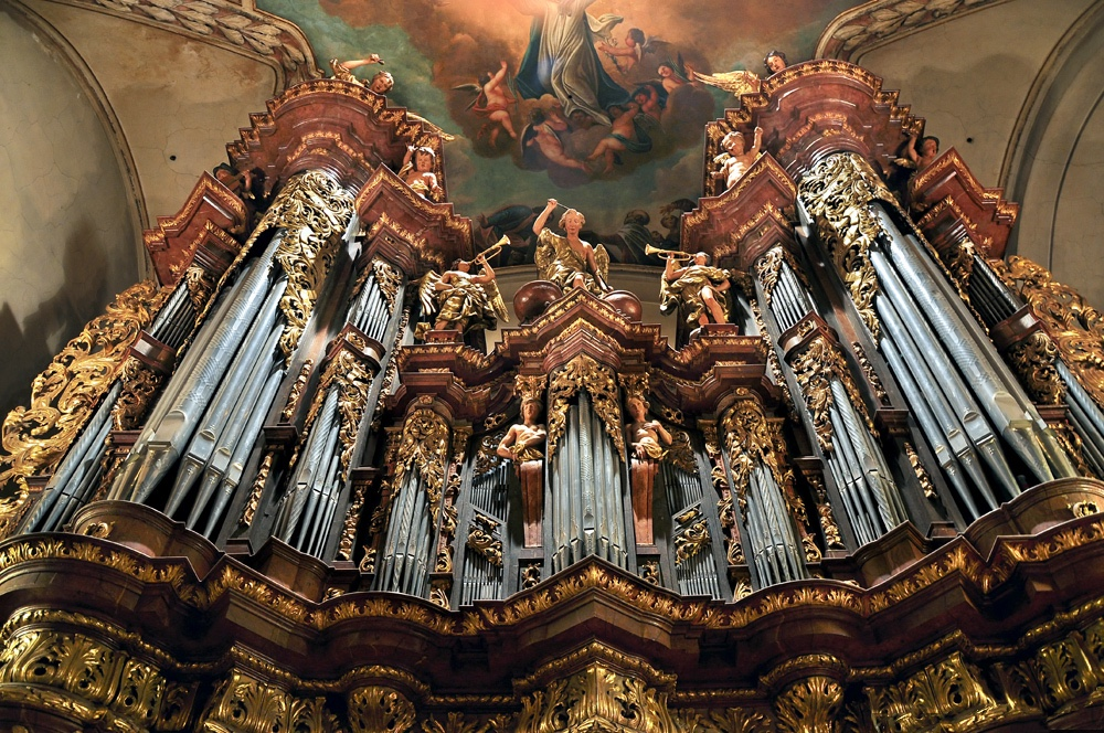 Organ in st. james church in Prague